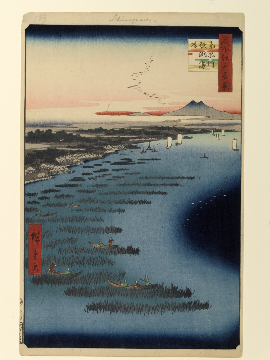 Part of the series One Hundred Famous Views of Edo, no. 109, part 4: Winter.